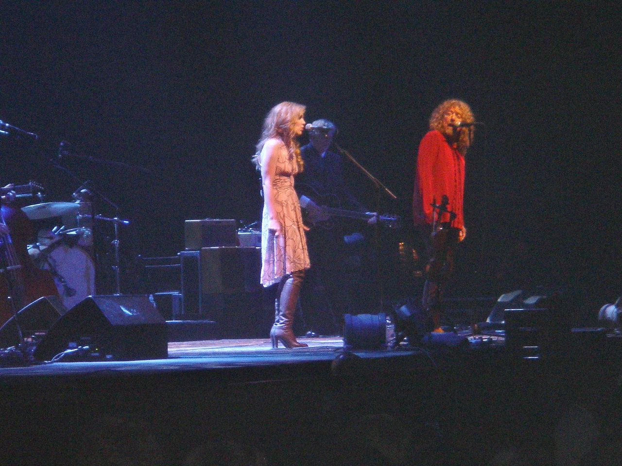 Alison Krauss on stage with Robert Plant at Birmingham's NIA, 5/May/2008 (T-Bone Burnett in background)